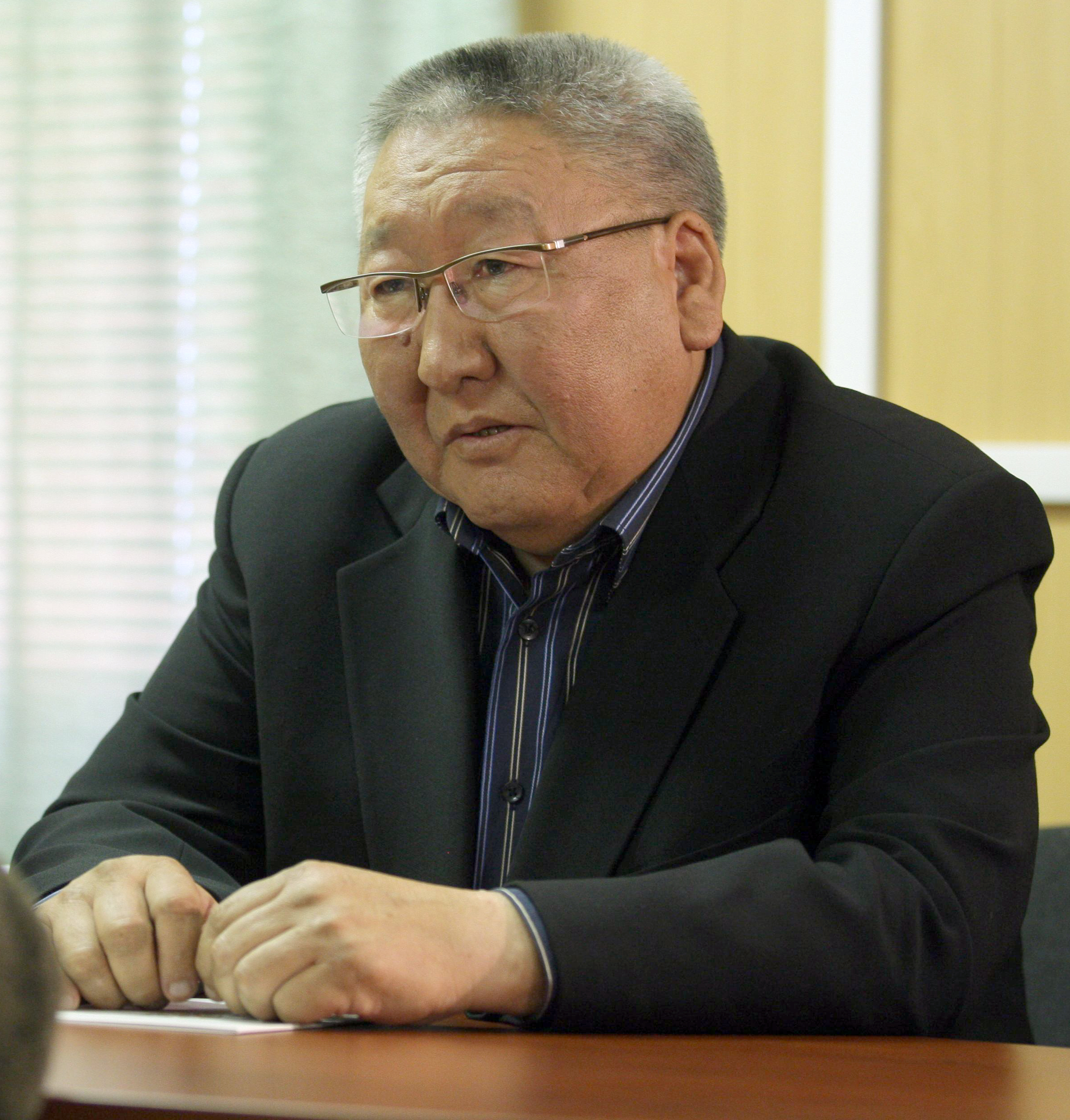 President of the Republic of Sakha (Yakutia) Yegor Borisov meeting with Prime Minister Vladimir Putin